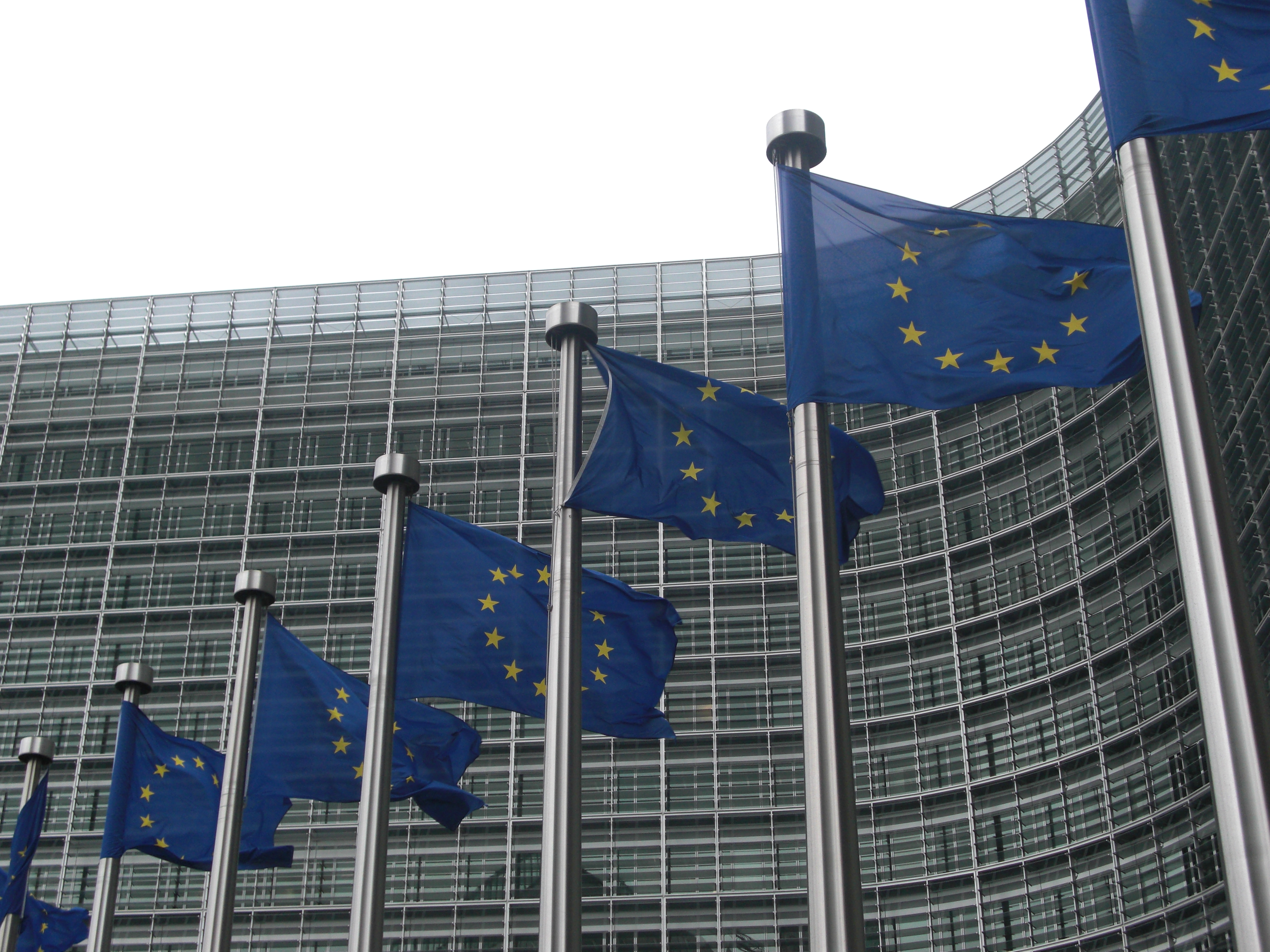 Flags in front of the European Commission building in Brussels.